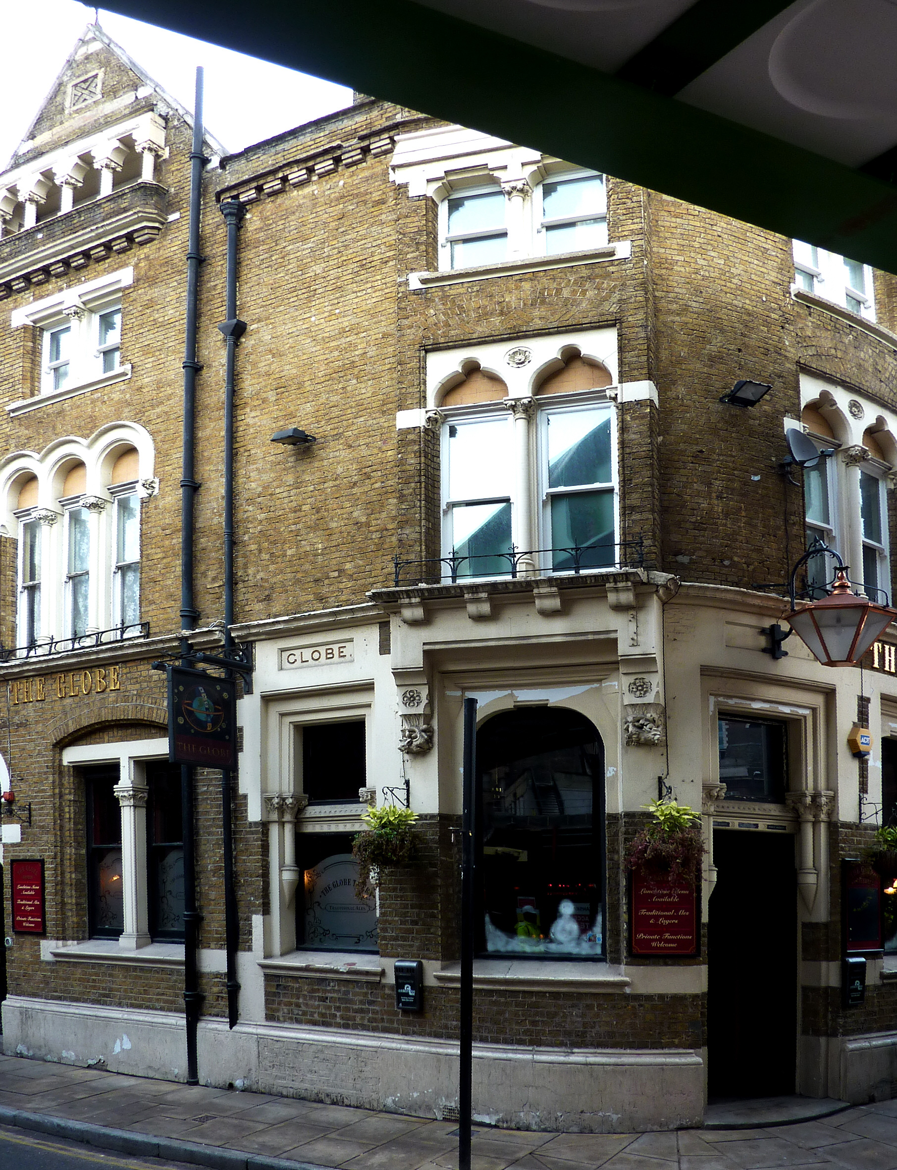 The Globe Pub and Tavern, surrounded by viaducts.